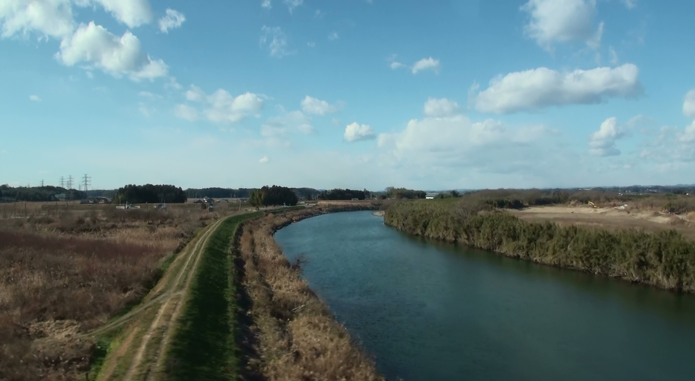 Kuji River upstream side from the bridge of Joban Expressway